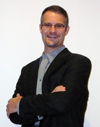 Robert Livingstone taken in 2009 at home in Toronto, Canada